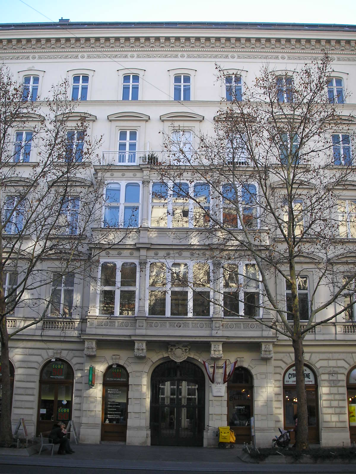 Palais Rohan in Vienna, at Praterstraße in the II. district Leopoldstadt.